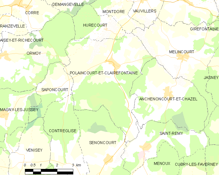 Map of French municipality